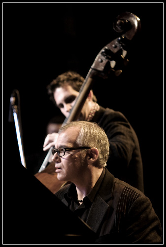 Jazz pianist Laurence Hobgood and bassist Rob Amster with the Kurt Elling quartet, live at the Blue Note in Milan